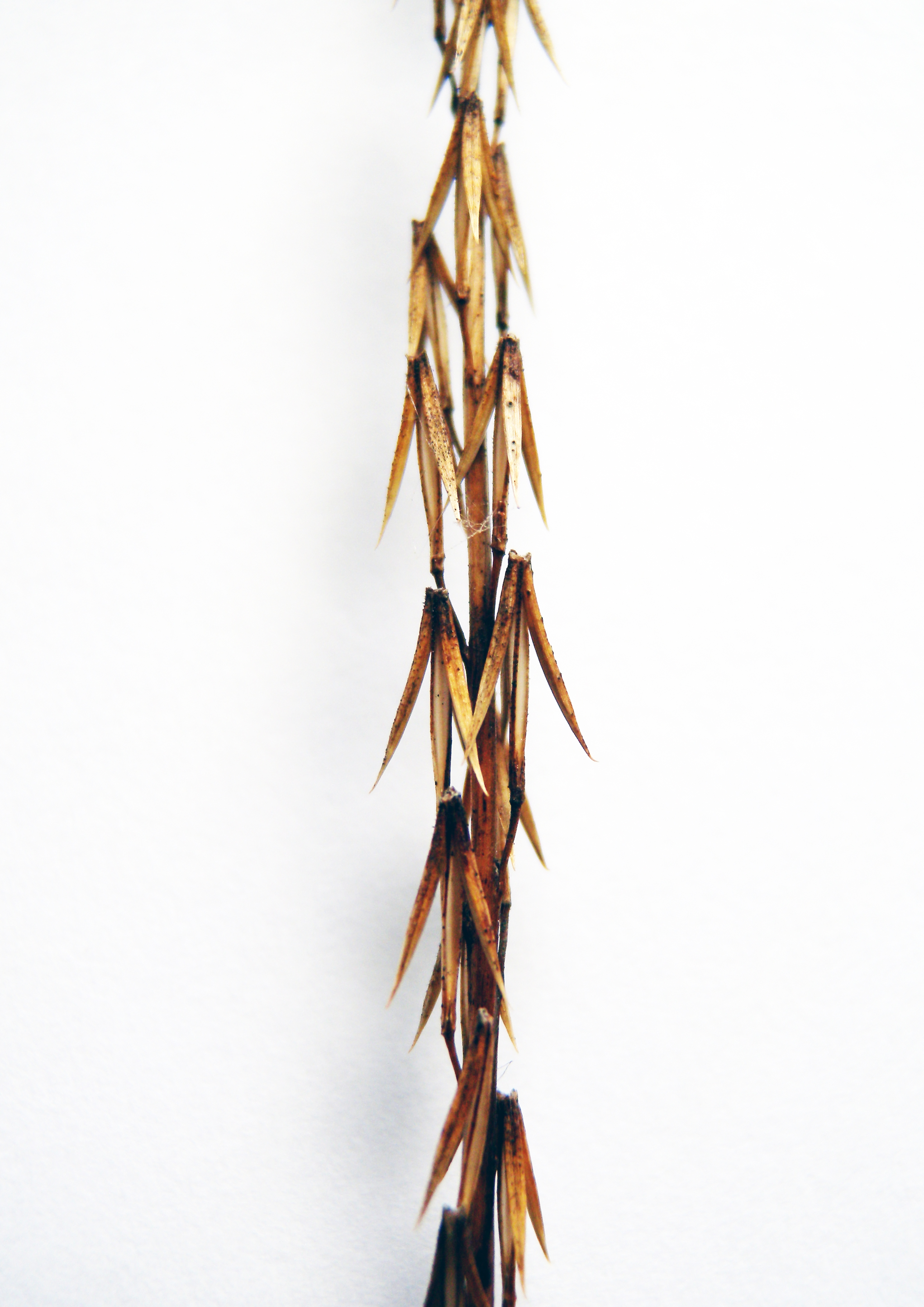 Fruits of Triglochin palustris. Marsh area in Entlebuch, Canton of Lucerne, Switzerland